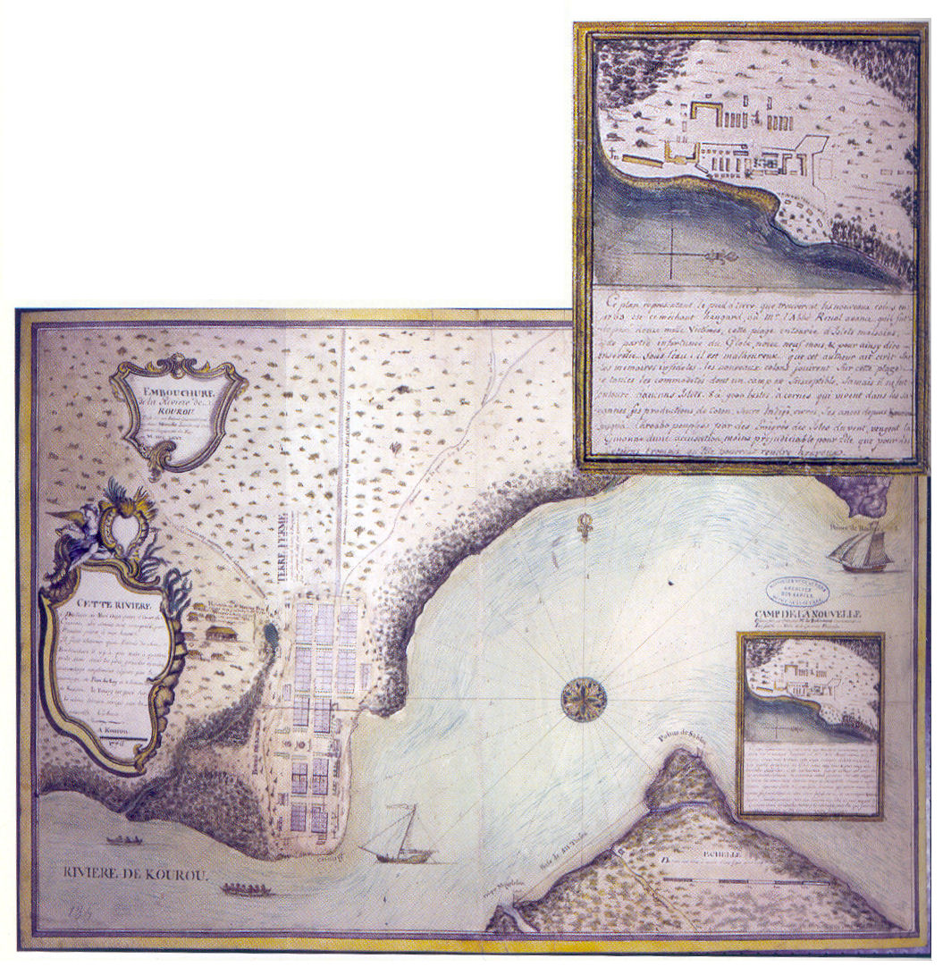 Map showing Kourou in 1776 and detail of the expedition camp as planned by Brûletout de Préfontaine in 1763, before the arrival of the colonists.